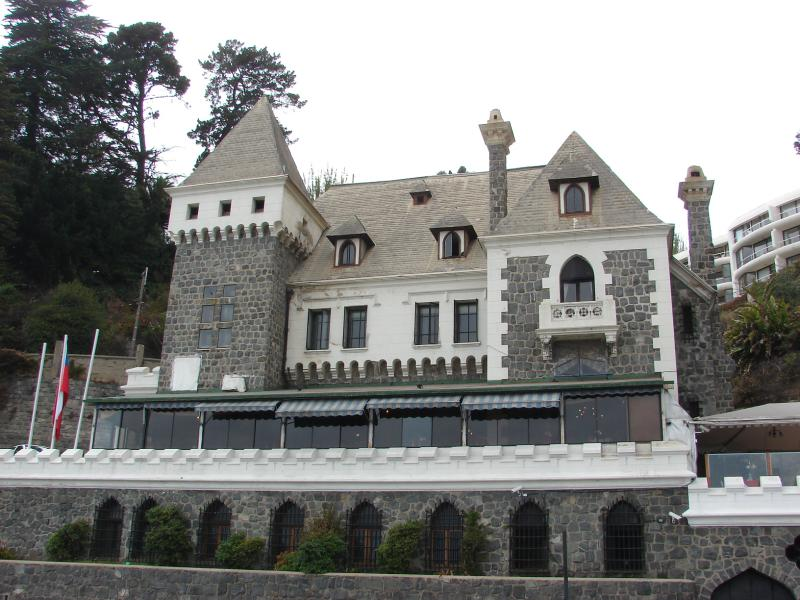 We returned south to Vina del Mar for a day trip. Like Zapallar is a spa and known for its beach life. The city grew out of a vinyard back then.